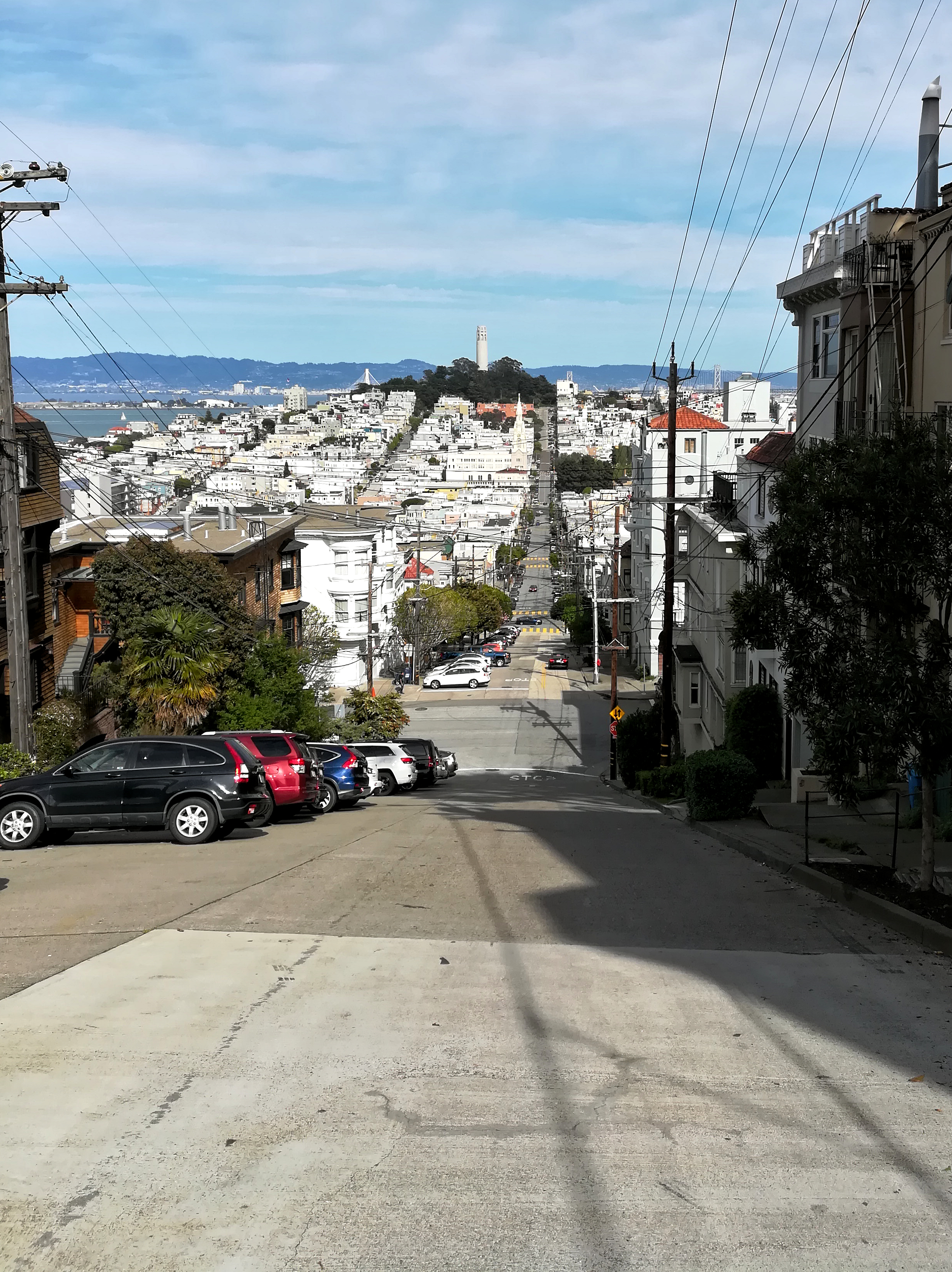 San Francisco Filbert Street in April 2018